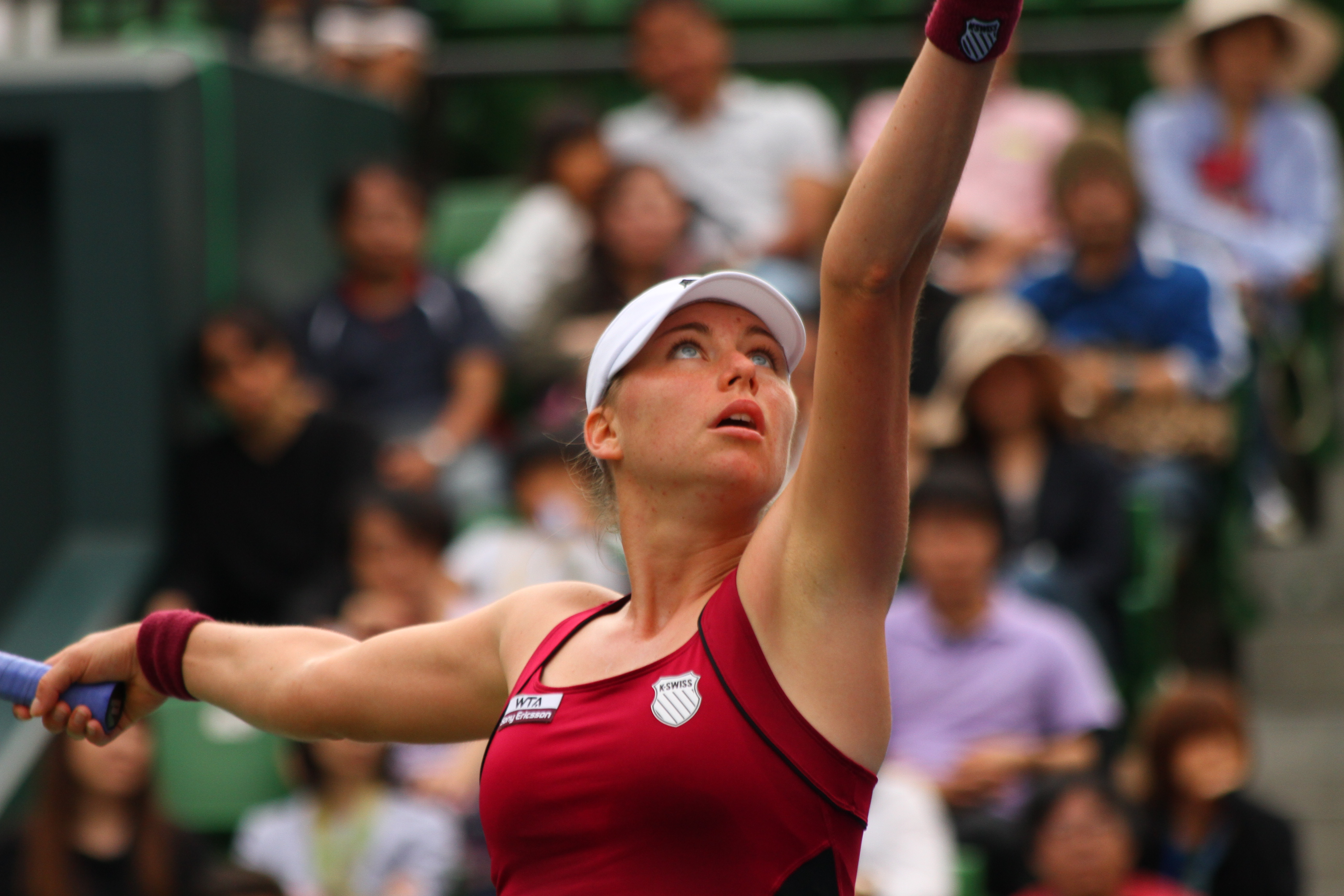 Vera Zvonareva at Toray Pan Pacific Open (Tokyo, Japan) in her final against Agnieszka Radwańska on October 1st, 2011.